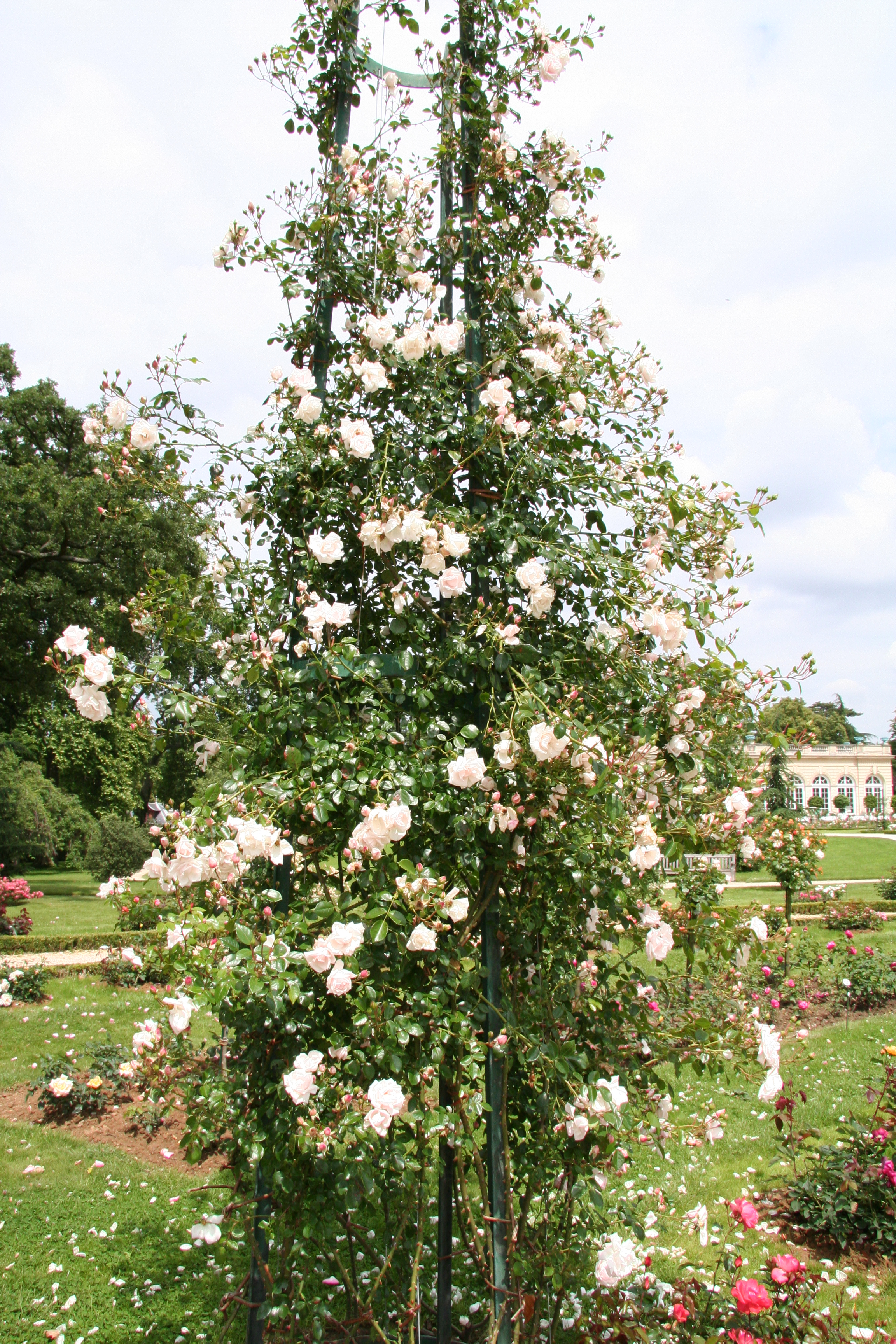 New Dawn rose - Bagatelle Rose Garden (Paris, France).